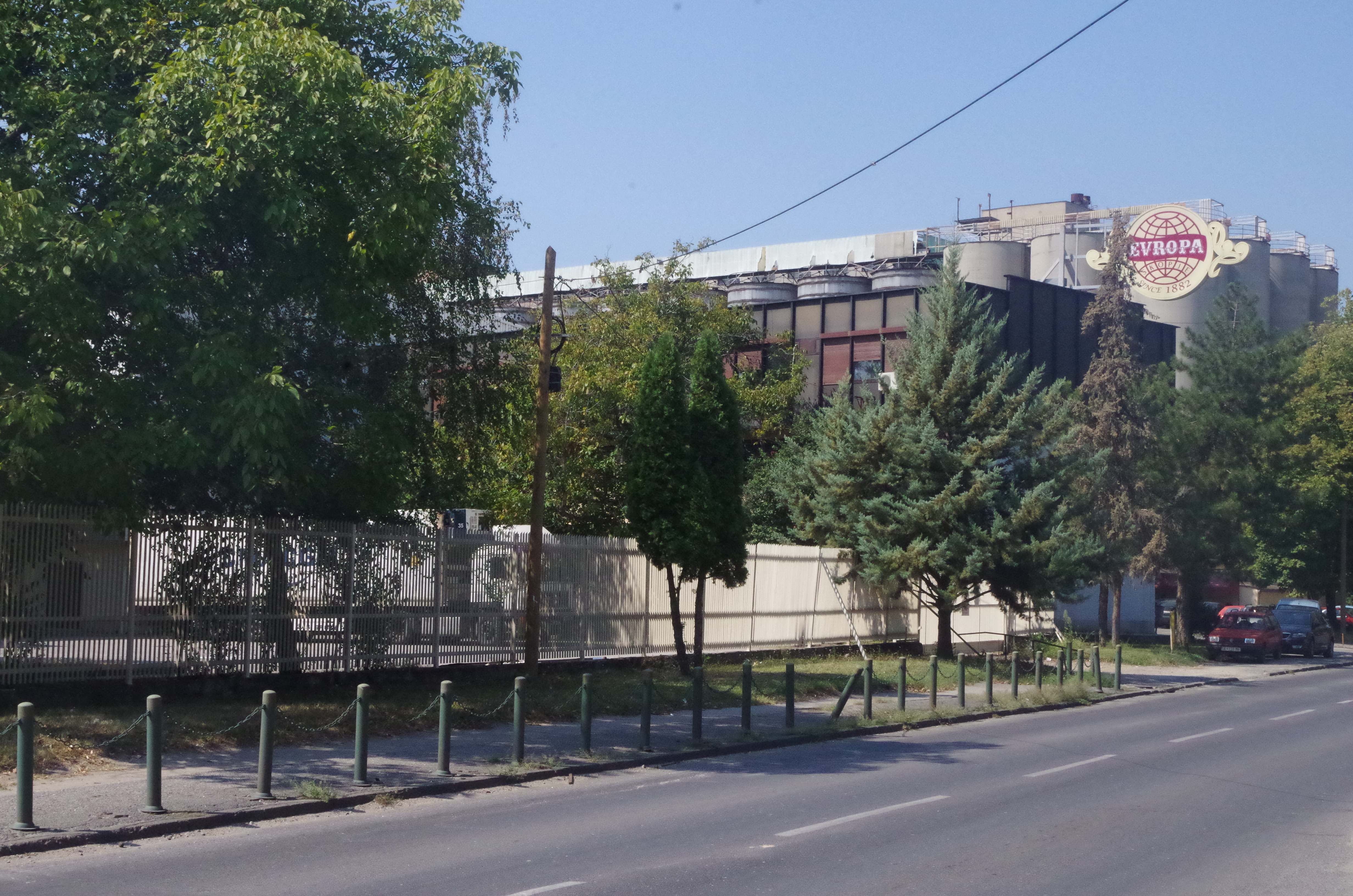 Confectionery industry